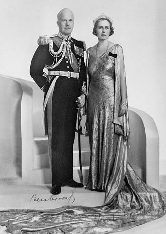 Official photo of Governor General and Lady Bessborough.